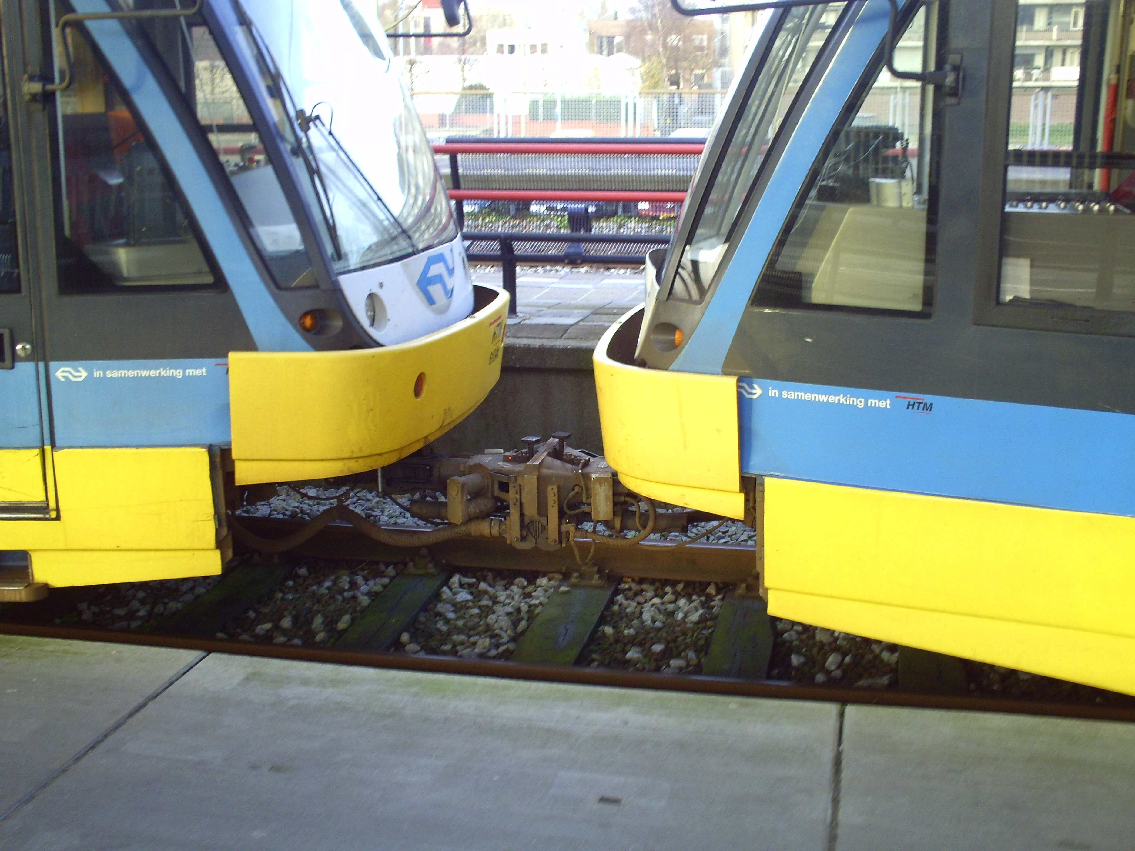 2 Lightrail Trains